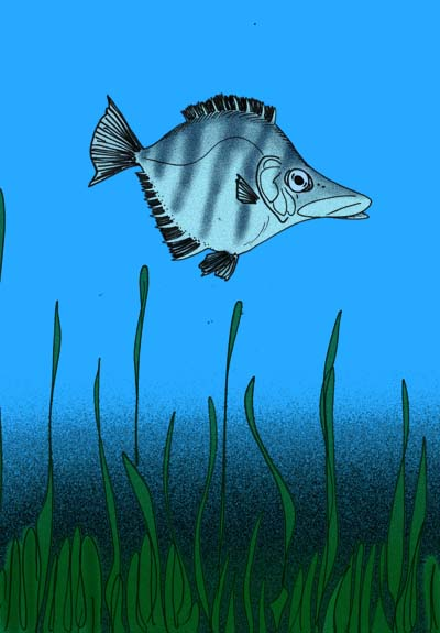 Reconstruction of the basal lampridiform Bathysoma lutkeni, from the Danian epoch of what is now Sweden